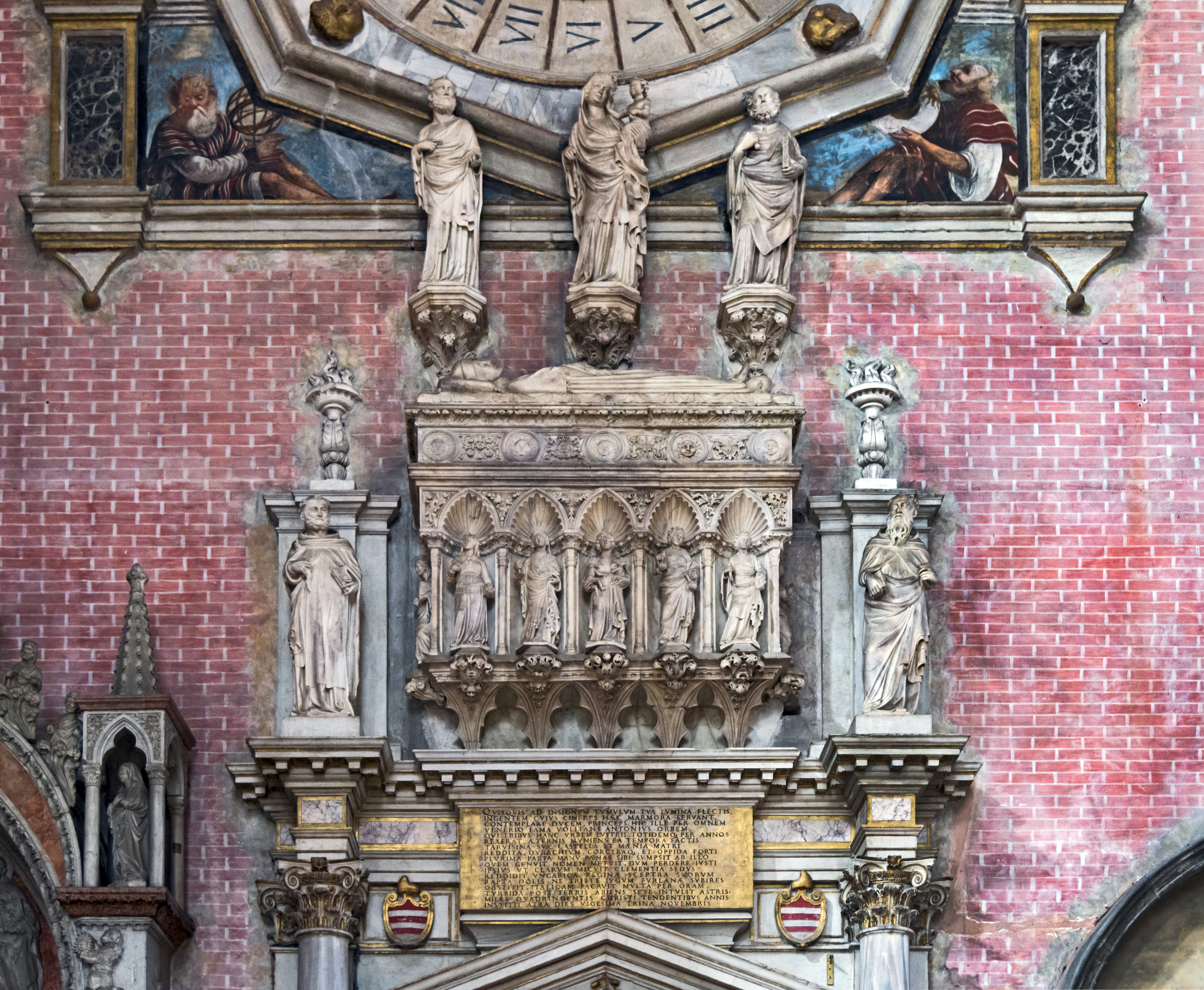 Left transept of Santi Giovanni e Paolo in Venice - Tomb of the Doge Antonio Venier, by brothers Jacobello dalle Masegne and Pierpaolo dalle Masegne.